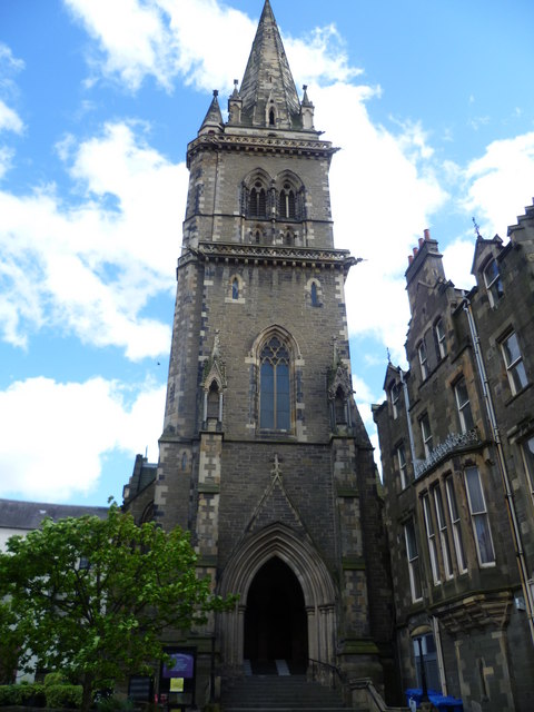 St. Paul's Cathedral, High Street